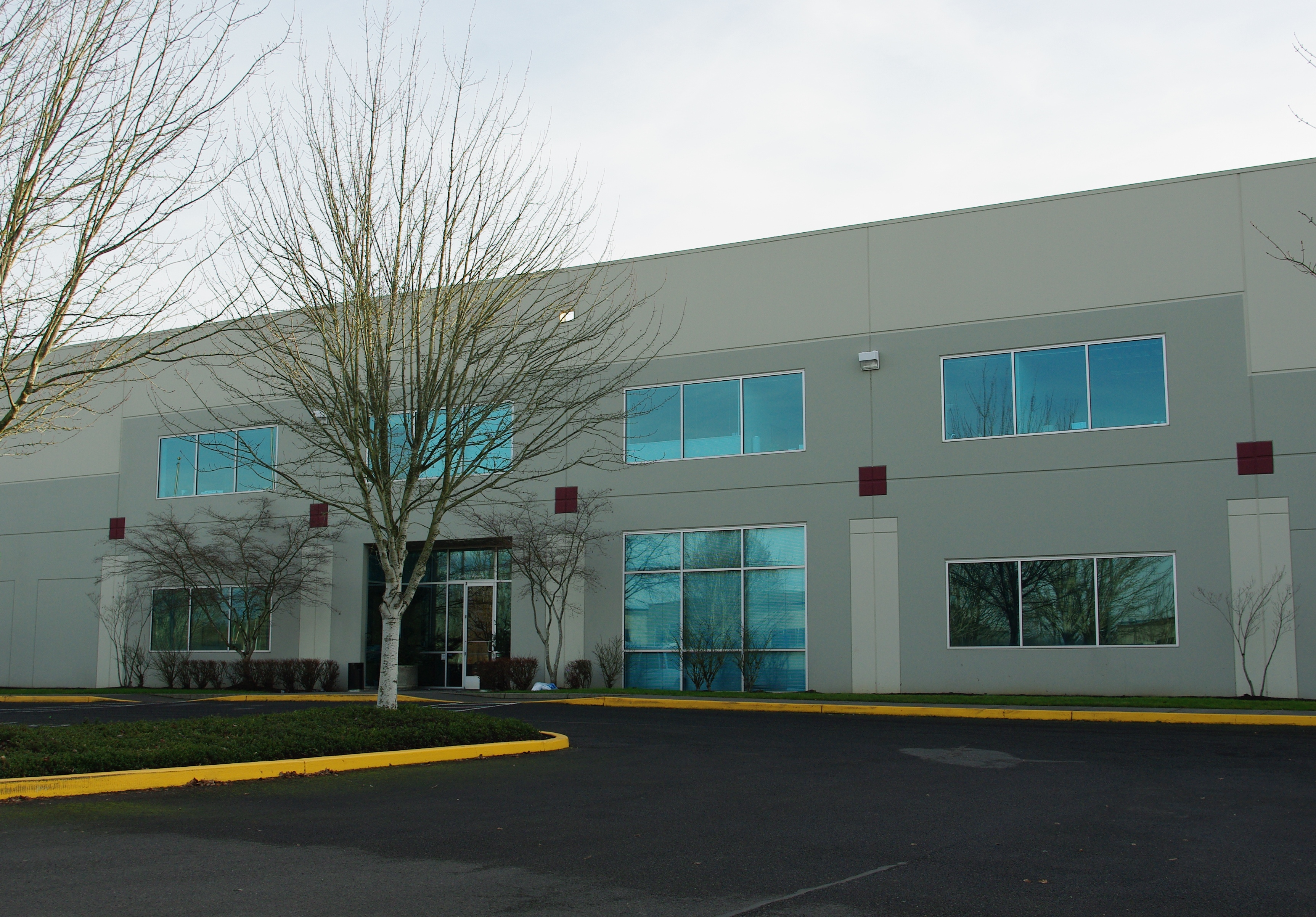 Laika (company) studio in Hillsboro, Oregon.